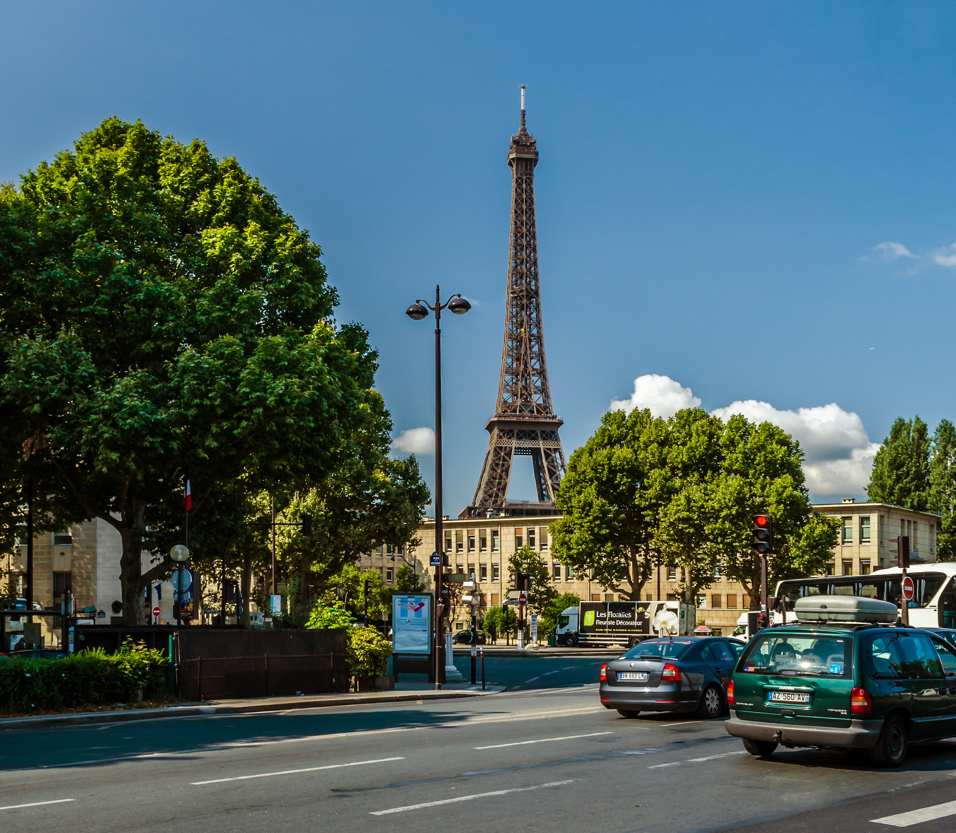 Eiffel Tower as seen from the Place de la Résistance, Paris.